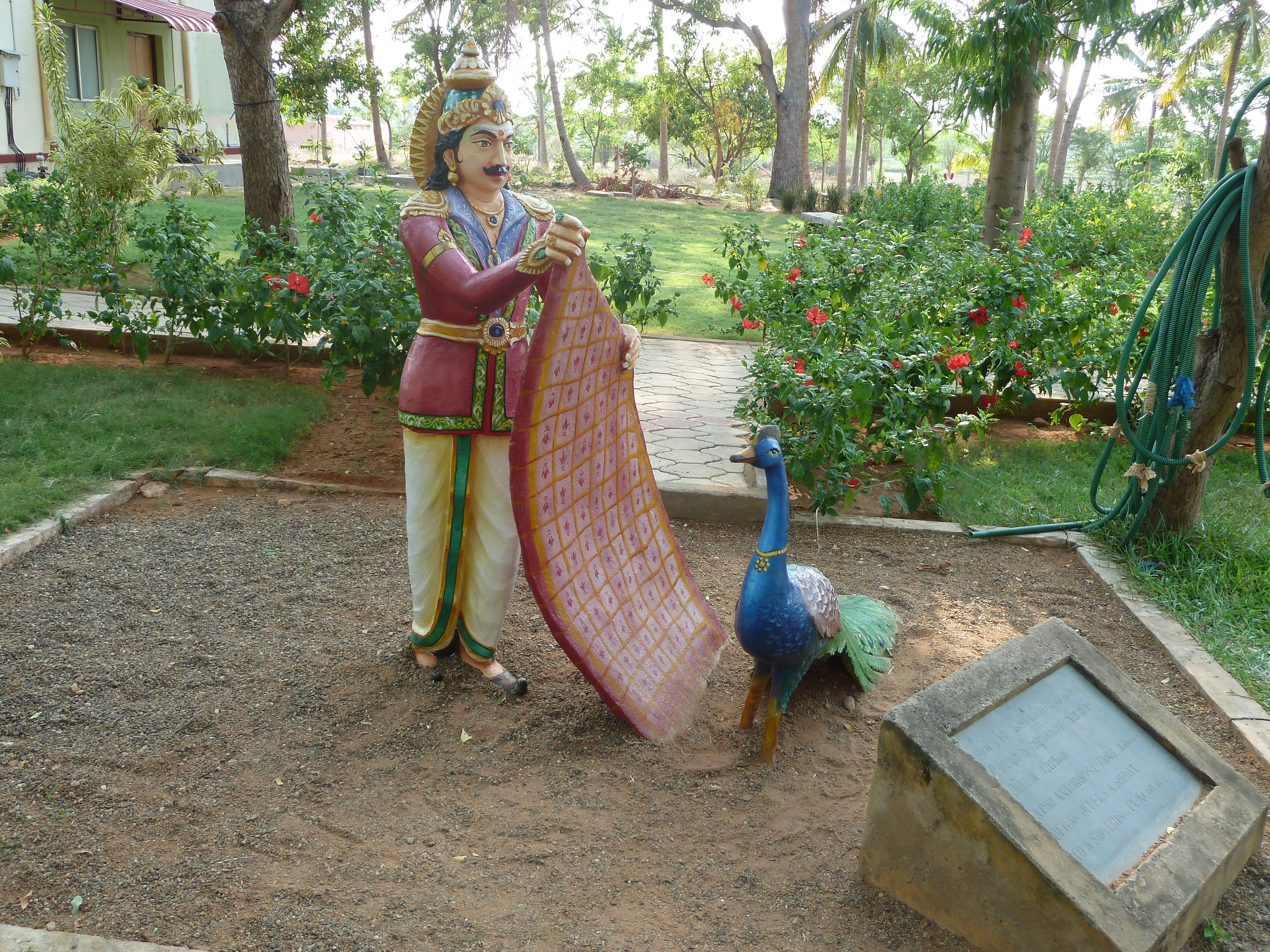 Began, a Tamil king giving blanket to peacock. Picture shot in a park near sitanna vasal in pudukottai.